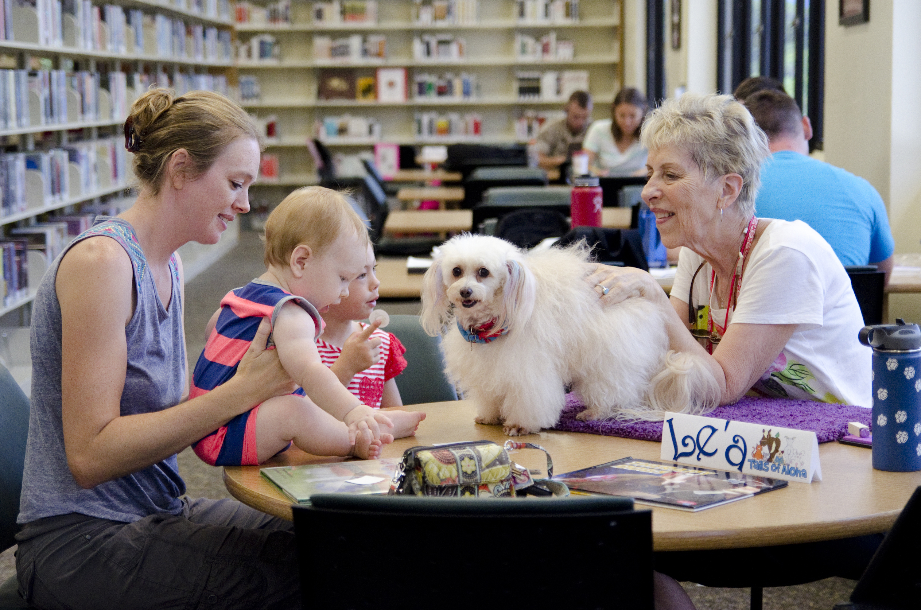 A family shares some social time with Le‘a, a Maltese/poodle mix, and her handler, during the Reading to Dogs event at the base library, July 22, 2015. Le‘a is certified with the Reading Education Assistance Dogs program from Intermountain Therapy Animals, a nonprofit organization based in Salt Lake City. Le‘a is also a therapy dog with Tails of Aloha, a local nonprofit that provides therapy dog visits to locations islandwide. The mission of Marine Corps Base Hawaii is to provide facilities, programs and services in direct support of units, individuals and families in order to enhance and sustain combat readiness for all operating forces and tenant organizations aboard MCB Hawaii. (U.S. Marine Corps photo by Kristen Wong/Released) Unit: Marine Corps Base Hawaii – Kaneohe Bay DVIDS Tags: Exceptional Family Member Program; Marine Corps Base Hawaii; R.E.A.D.; EFMP; base library; Reading to dogs program; Tails of Aloha; Intermountain Therapy Animals; Hi-Lo books